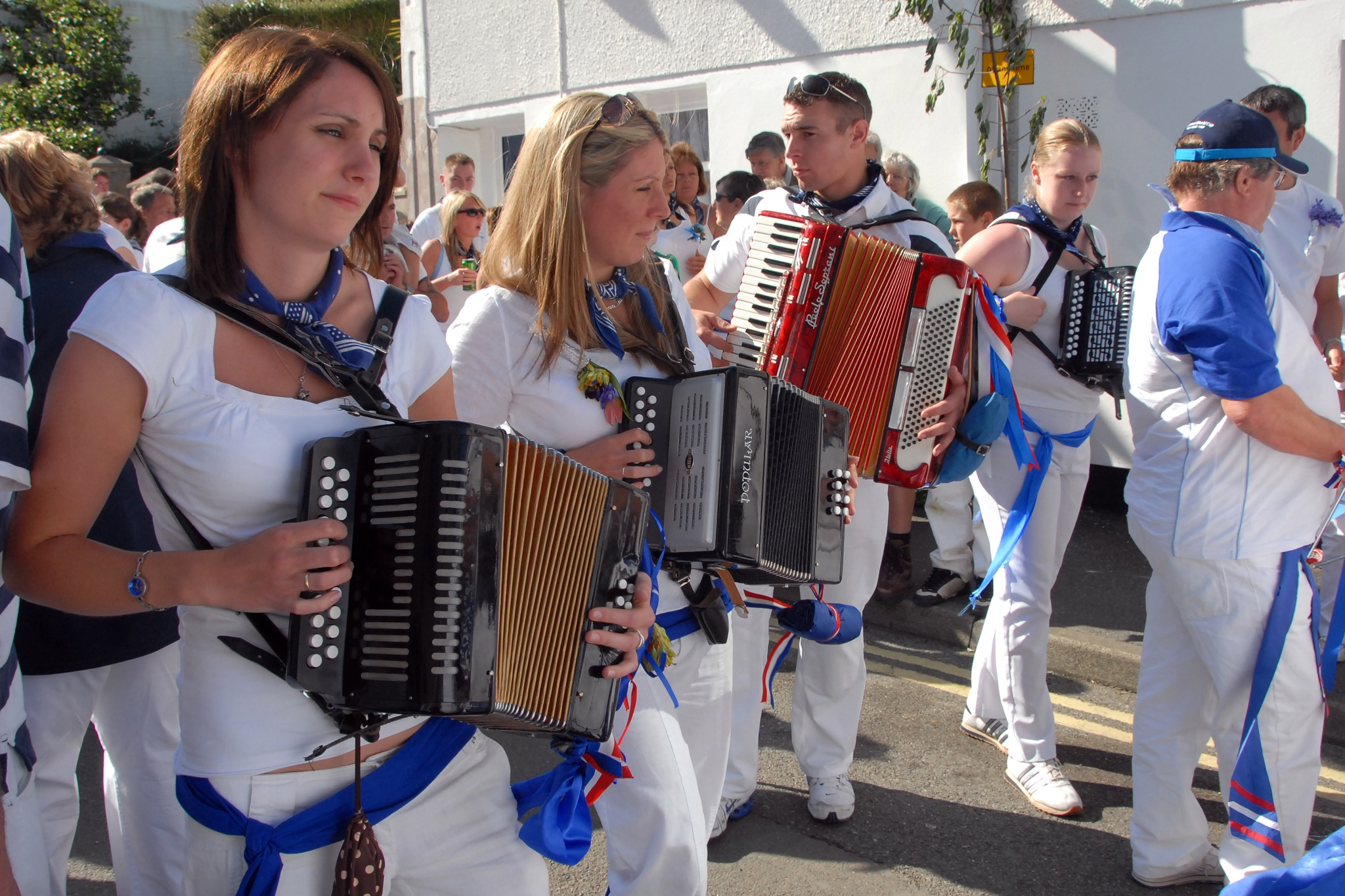 The festival starts at midnight on May 1st with unaccompanied singing around the Town in particular the Golden lion Inn. In the morning, the town is dressed with greenery, flowers and flags with the centrepoint being the maypole. The climax arrives when dancers cavort through the town dressed as one of two 'Obby 'Osses, the "Old" and the "Blue Ribbon" 'Obby 'Osses, during the day a number of "Junior" osses appear operated by children. As the name suggests the costumes are stylised recreations of horses. Accompanied by drums and accordions and prodded on by acolytes known as "Teasers", each 'Oss is adorned by a gruesome mask and black frame-hung cape under which they try to catch young maidens as they pass through the town.